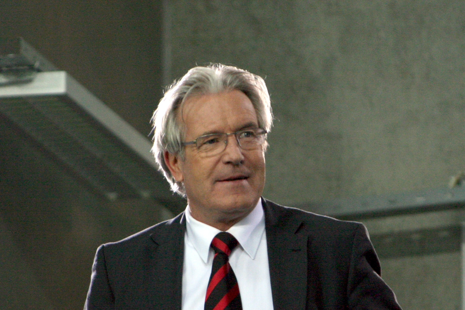 Norwegian journalist Davy Wathne.